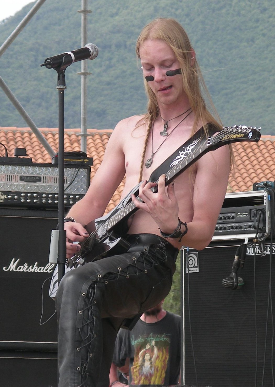 Petri Lindroos from Ensiferum during the Evolution Festival in 2006.